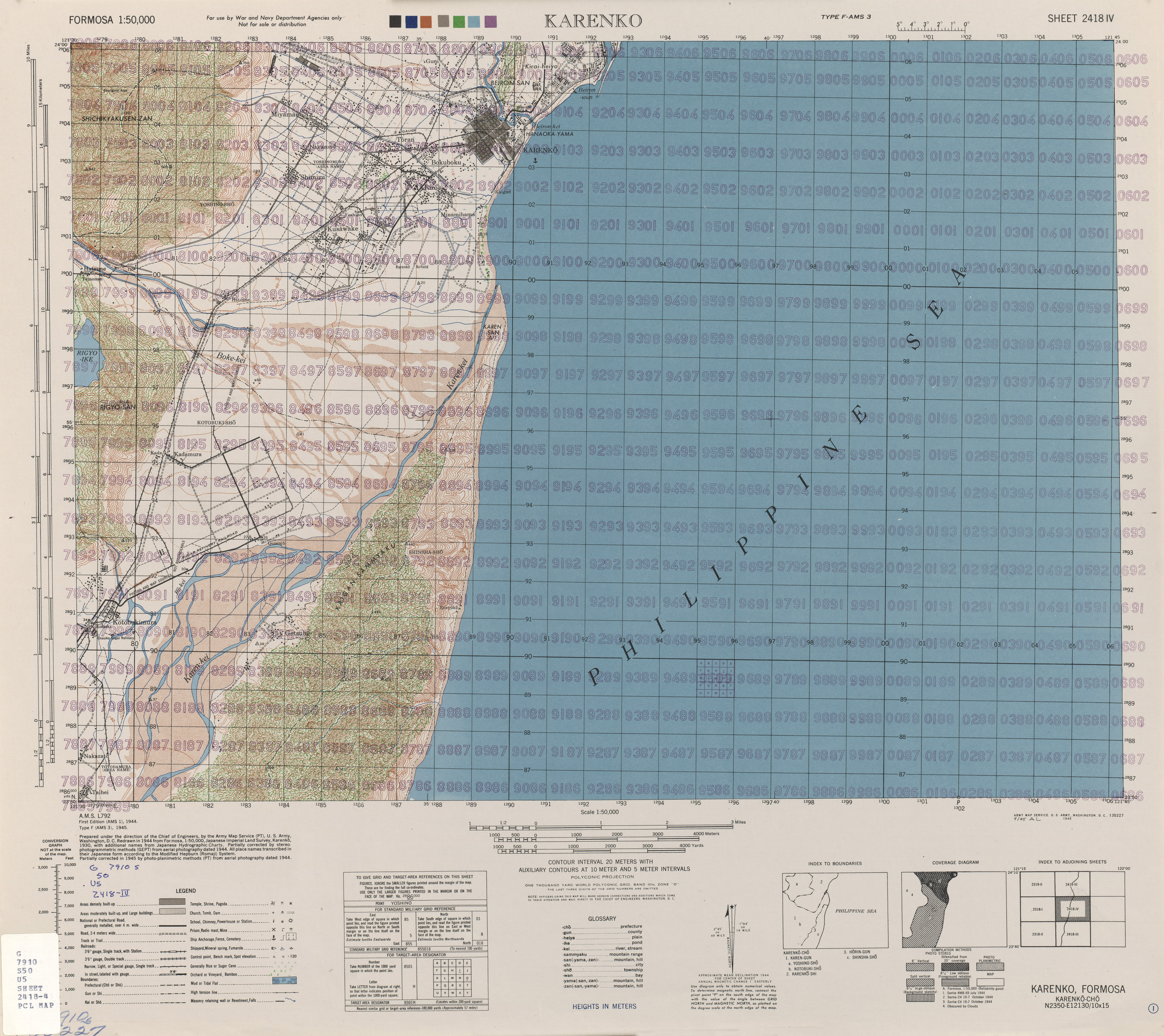 Map from Formosa (Taiwan) 1:50,000 AMS Series L792